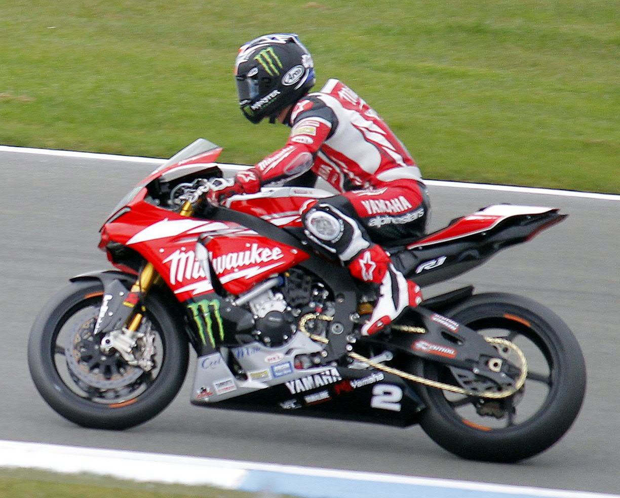 Australian rider Broc Parkes on a Milwaukee Yamaha Superbike 1000cc in early 2015